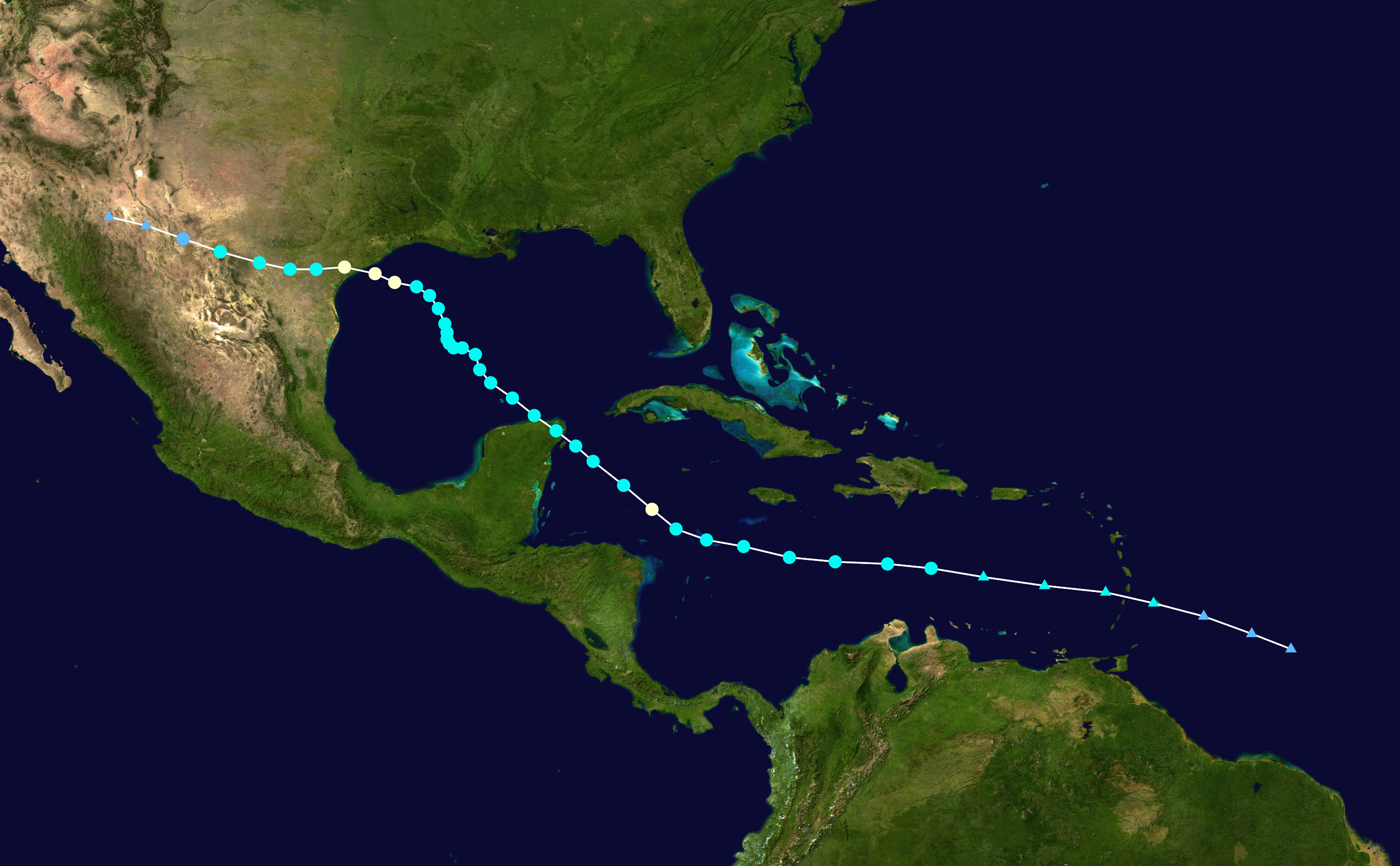 Track map of Hurricane Claudette of the 2003 Atlantic hurricane season. The points show the location of the storm at 6-hour intervals. The colour represents the storm's maximum sustained wind speeds as classified in the Saffir–Simpson scale (see below), and the shape of the data points represent the nature of the storm, according to the legend below. Saffir–Simpson scale Tropical depression≤38 mph≤62 km/h Category 3111–129 mph178–208 km/h Tropical storm39–73 mph63–118 km/h Category 4130–156 mph209–251 km/h Category 174–95 mph119–153 km/h Category 5≥157 mph≥252 km/h Category 296–110 mph154–177 km/h Unknown Storm type Tropical cyclone Subtropical cyclone Extratropical cyclone / Remnant low / Tropical disturbance / Monsoon depression